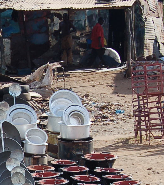 Malindi, Kenya. "This stall was selling metal and tin-ware. Most of the implements are actually made here in the banda at the back." On the right, rear, are various sizes of Sufuria pots with Jiko braziers lined up in front of them.